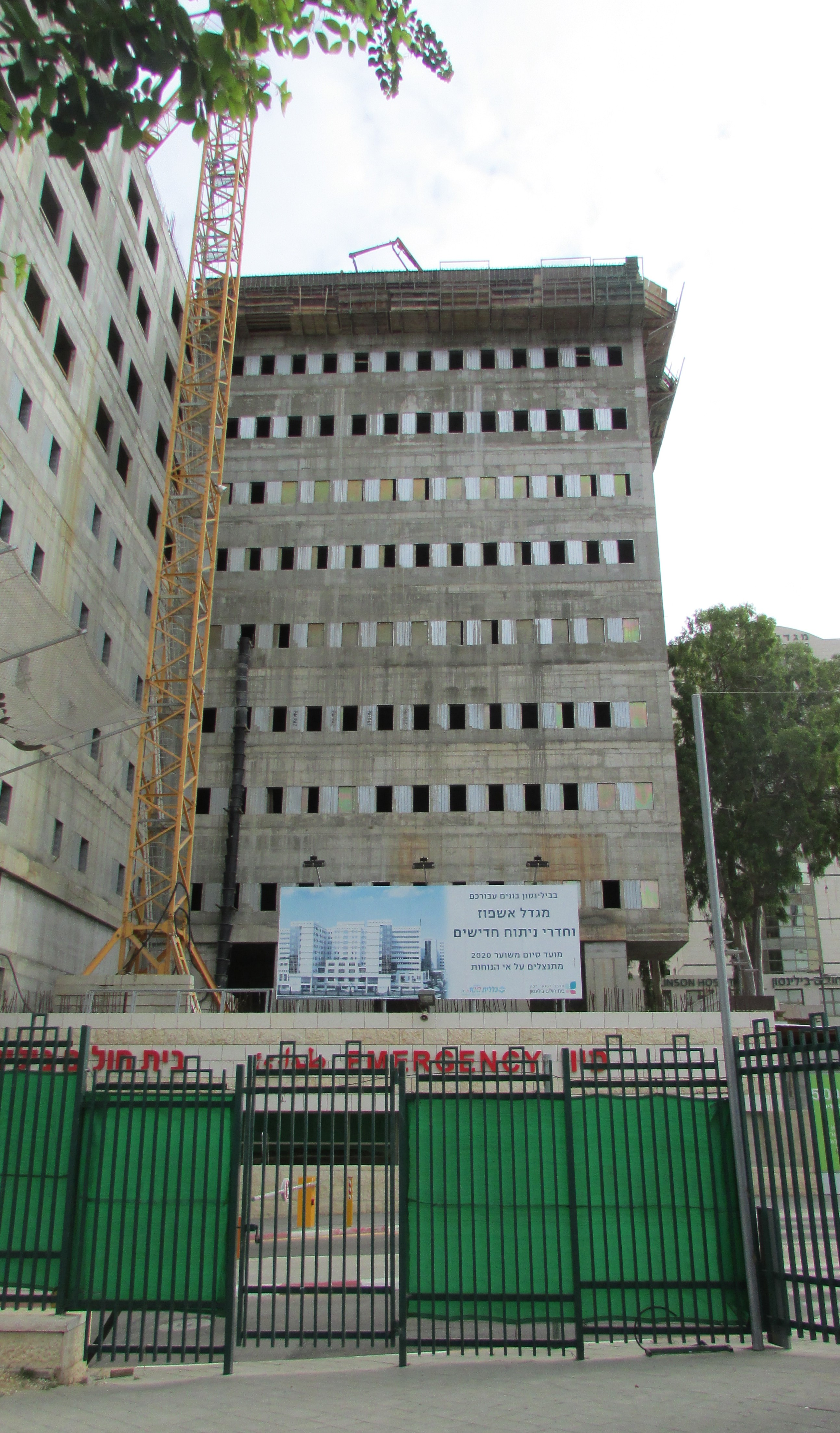 Beilinson Hospital. New building under construction. was planned to be completed in 2020.